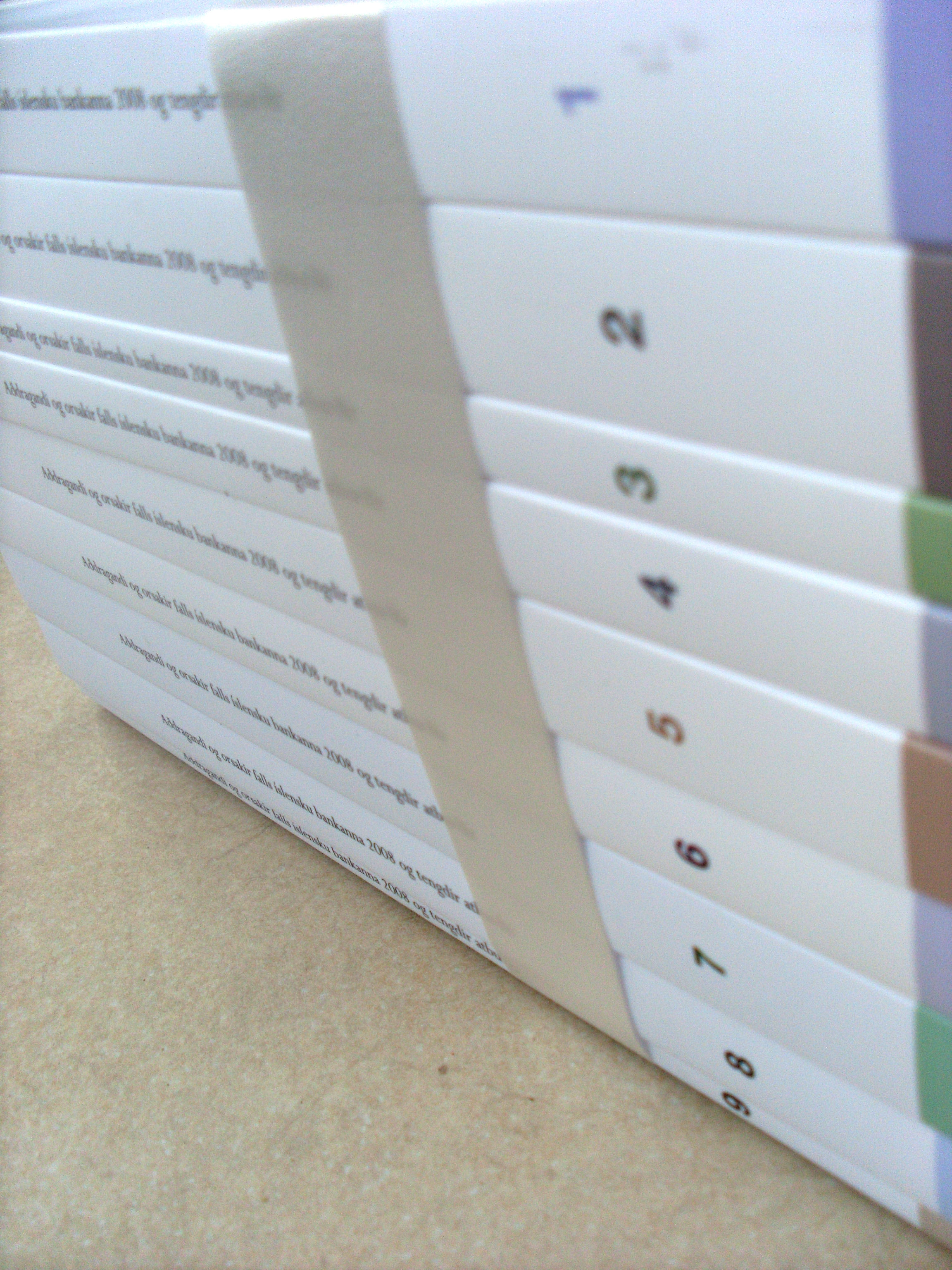 The The Report of the Althingi Special Investigation Commission